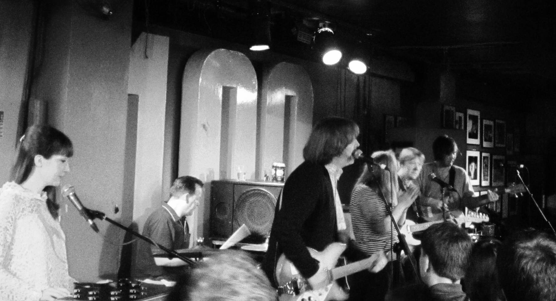 Comet Gain @London Popfest 25.2.2012.